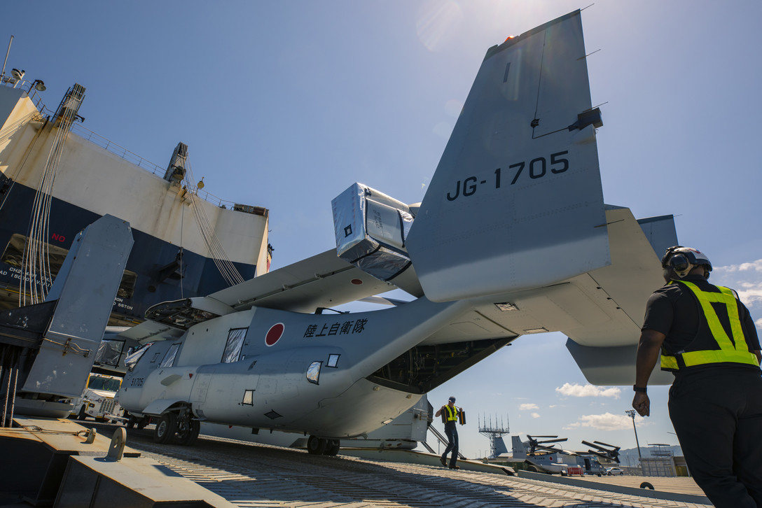 V-22 Ospreys bound for Japan Ground Self-Defense Force (JGSDF) units arrive in Japan at Marine Corps Air Station, Iwakuni, May 8, 2020. The V-22 off-load marked the first time JGSDF V-22s arrived on Japanese soil. (U.S. Marine Corps photo by Cpl. Lauren Brune) U.S. Marine Corps photo by Cpl. Lauren Brune/Released 200508-M-LP762-1270.JPG